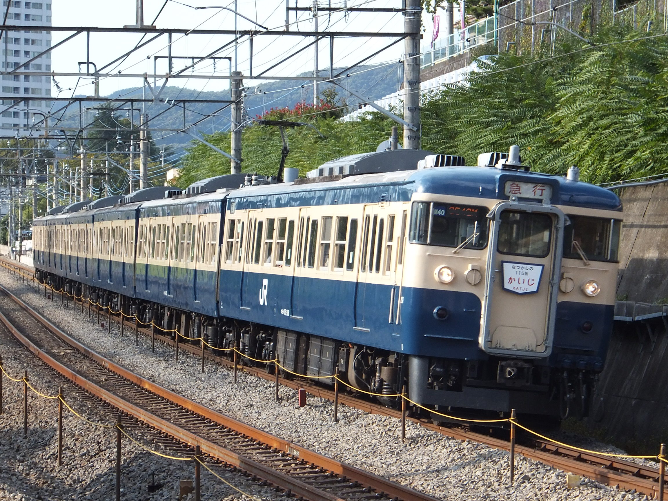 JR East 115 series 6-car set M40 on a special revival Kaiji express working on the Chuo Line between Kofu and Sakaori